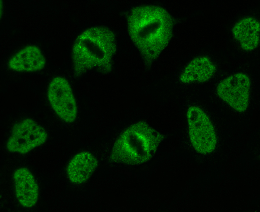 Immunofluorescence pattern of anti-nuclear antibodies (speckled pattern). Produced using serum from a patient on HEp-20-10 cells with a FITC conjugate.